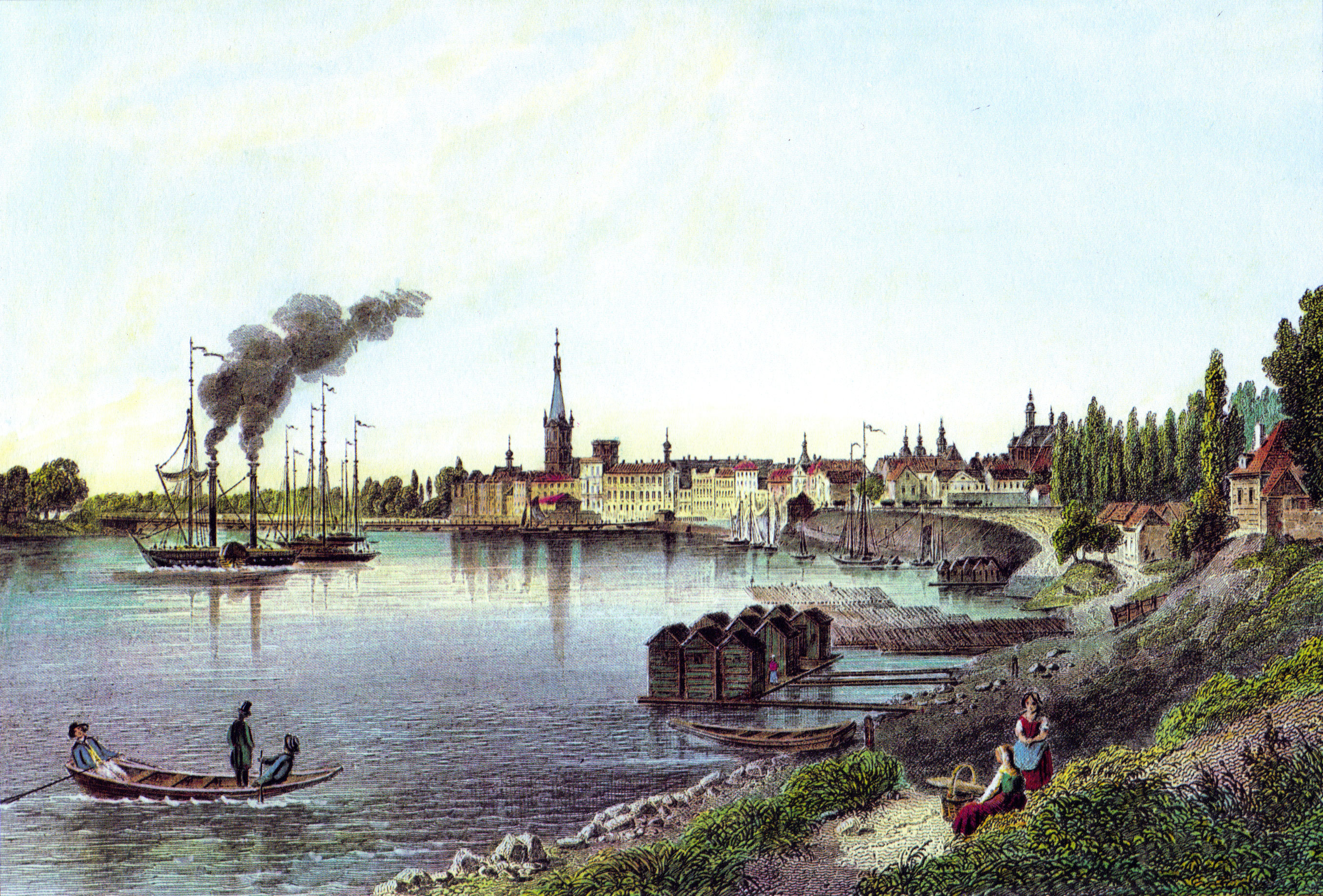 Rhine view around 1855. Artists: Ludwig Rohbock (drawing), Joseph Maximilian Kolb (engraving)